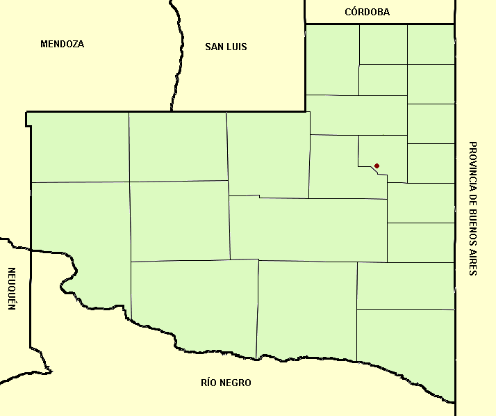 It shows administrative boundaries of La Pampa province in Argentina, its departments and its capital (Santa Rosa).